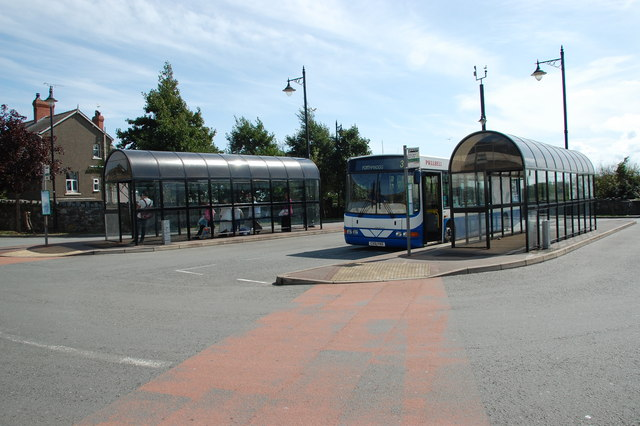 Pwllheli Bus Station